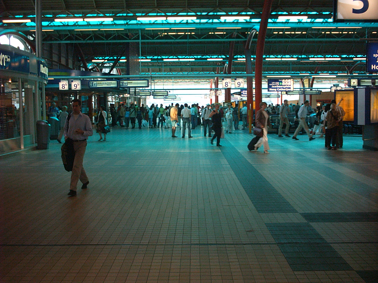 Utrecht central station, July 2004.